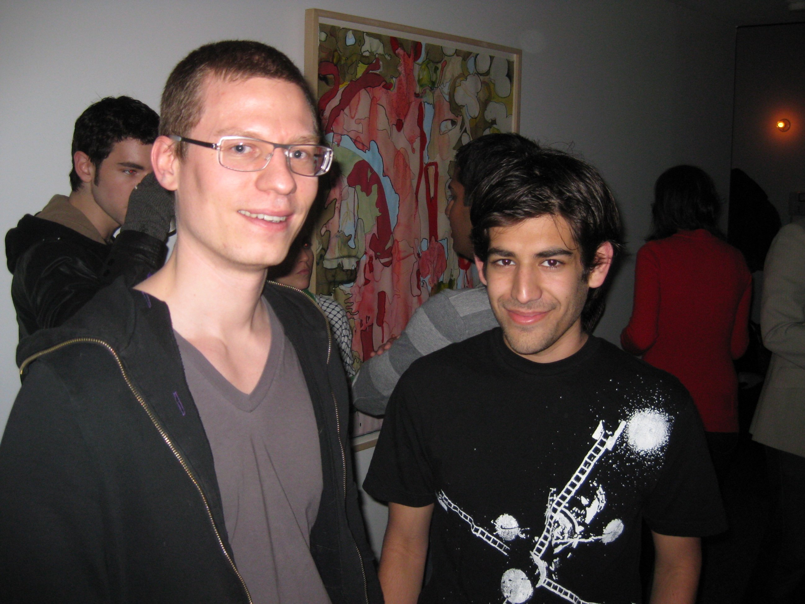 Nicholas Felton and Aaron Swartz at Powwow #6